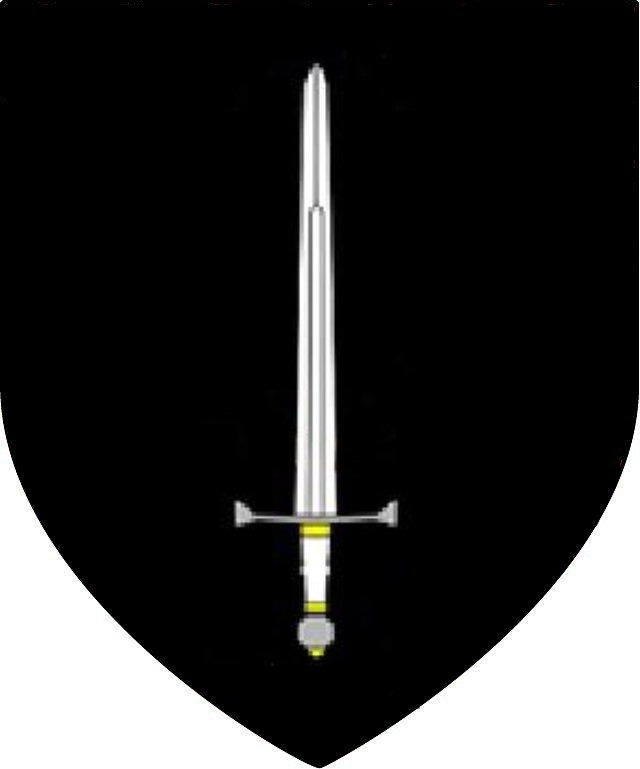 One of the Coat of Arms used by Sir Philip Marmion, the Kings Champion